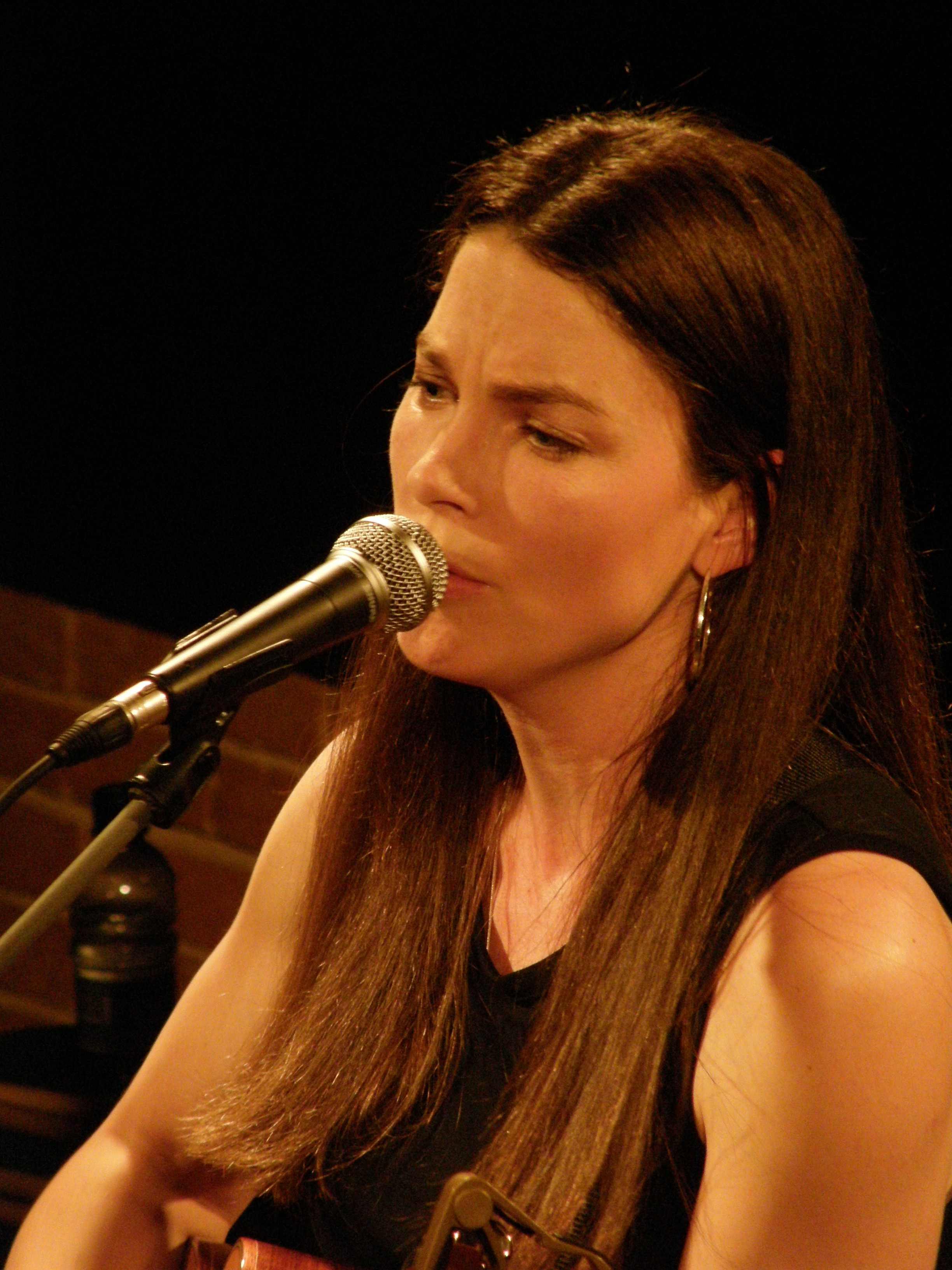 This is a photograph of UK born singer-songwriter Emily Maguire performing live at The Brook, Southampton, England taken on June 12, 2008. She was supporting American artist Eric Bibb